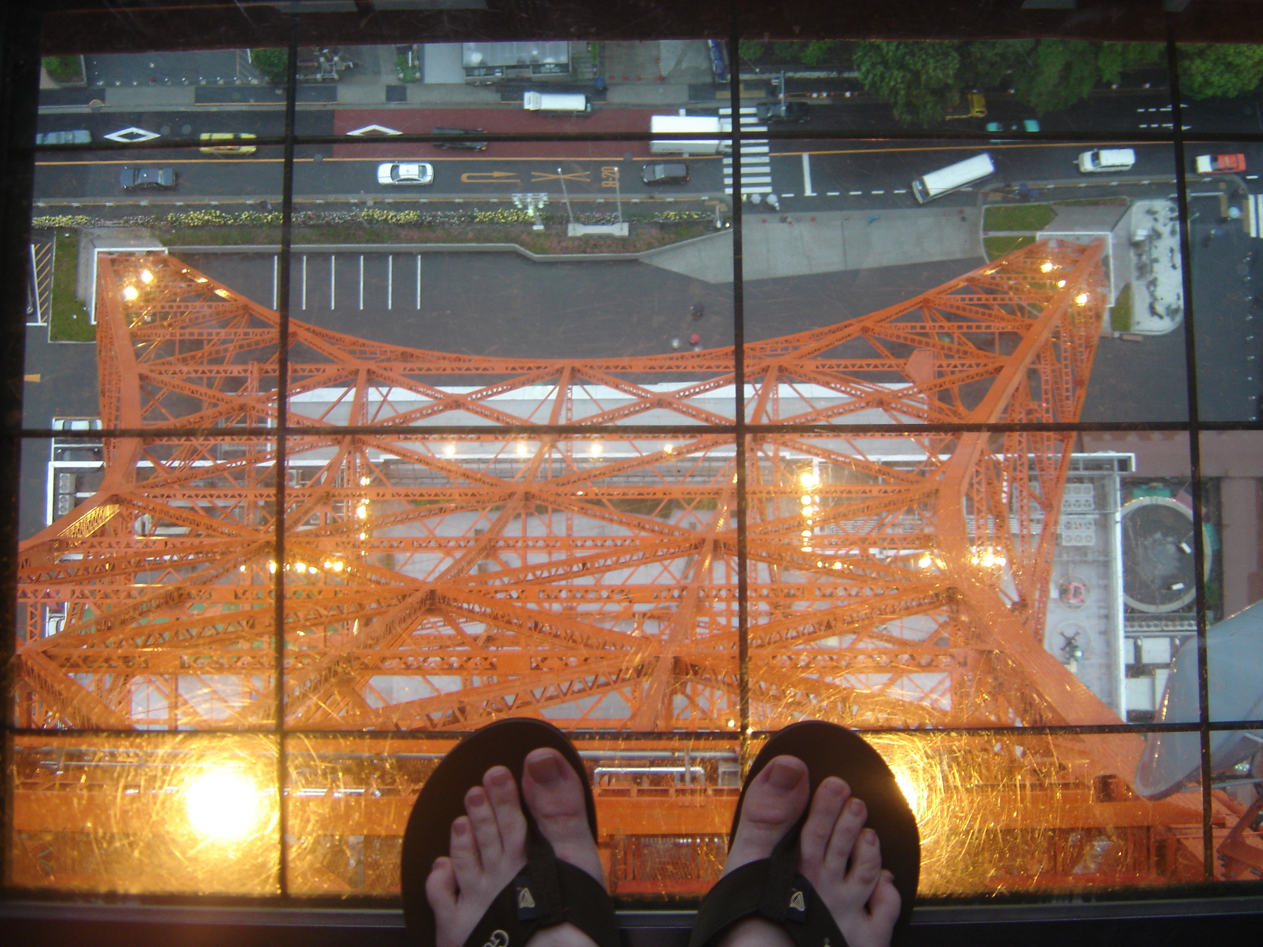 A view through one of the two "look down windows" on the first floor of the Main Observatory on Tokyo Tower